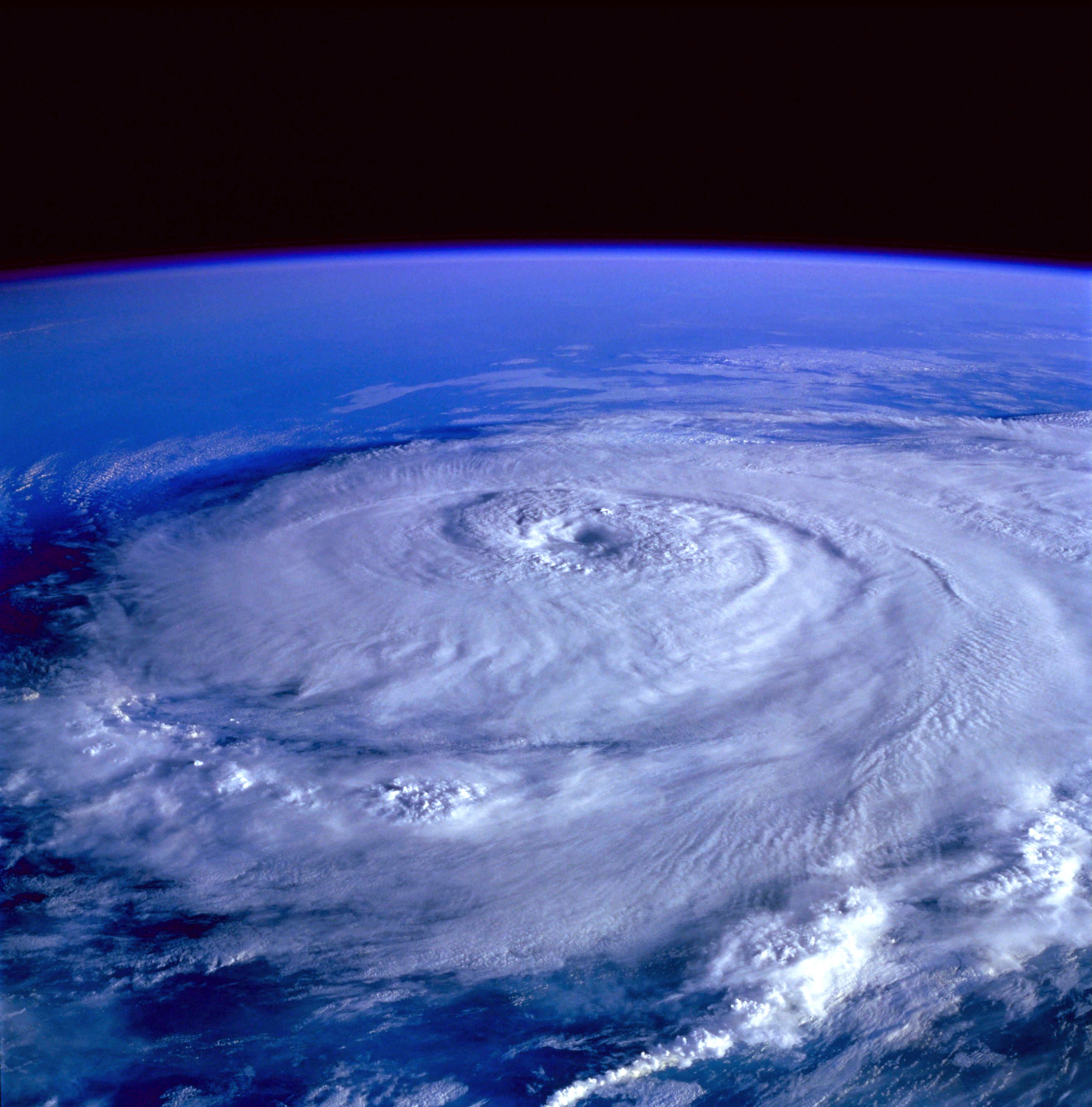 STS51I-44-0052 Hurricane Elena, Gulf of Mexico September 1985 Hurricane Elena, with wind speeds in excess of 115 miles per hour (182 kilometers per hour), was photographed in the Gulf of Mexico on September 1, 1985. Almost the entire storm can be seen in this high-oblique photograph. For instance, a number of thunderstorms with their overshooting tops, the spiral bands of numerous thunderstorms leading to the eye of the hurricane, and numerous cloud gravity waves within the spiral bands can be seen. Some portions of the eye wall, where the most destructive winds of the storm occur, are also visible. This storm eventually made landfall near Gulfport, Mississippi. Hurricane Elana [sic] in the Gulf of Mexico, exact location unknown. The presence of a tight, well formed, gyre and elevated cloud berm bordering the eye, are indicators of a very powerful and dangerous hurricane with very high internal cyclonic wind speeds.